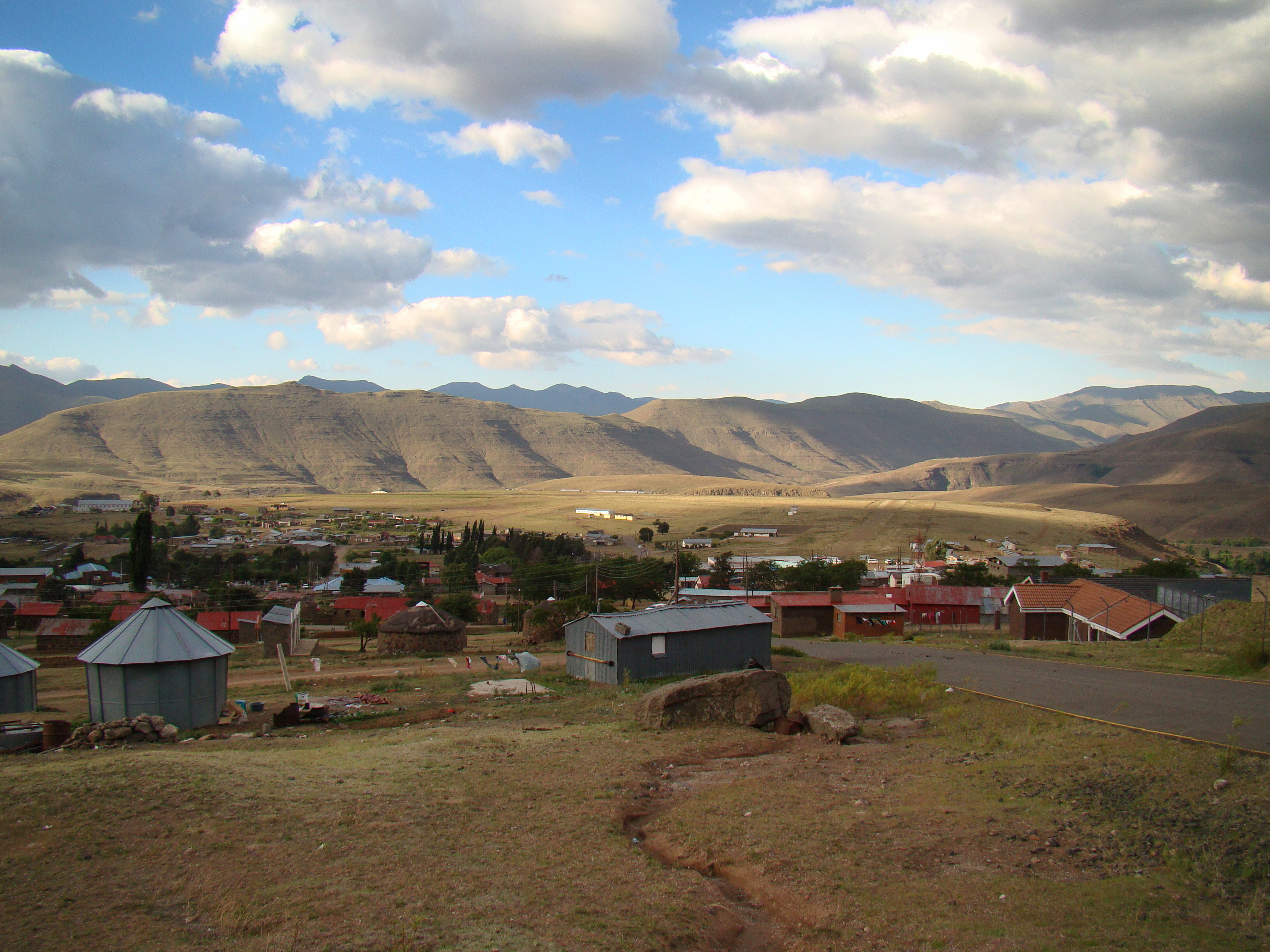 A view from the upper, southern part of Mokhotlong down towards the centre and the airport.